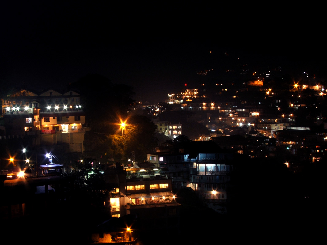 Night view of Mussoorie, Uttarakhand.